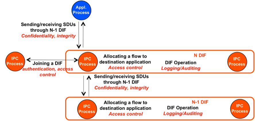 Figure 6. Placement of security functions in the RINA architecture.